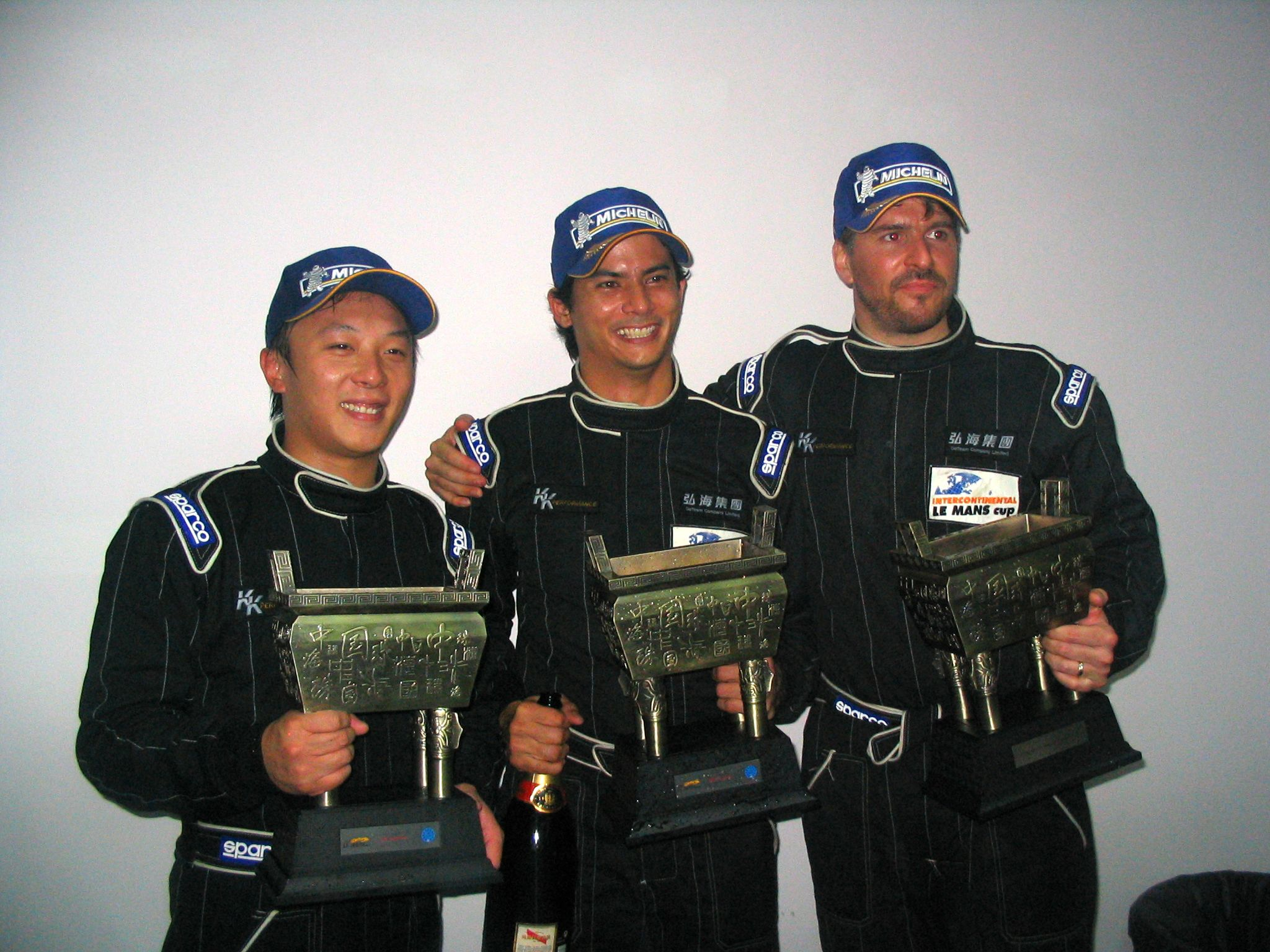 Marchy Lee, Alex Yoong and Matthew Marsh (from left to right), drivers of KK Performance, winners of GTC class at Intercontinental Le Mans Cup race in Zhuhai.